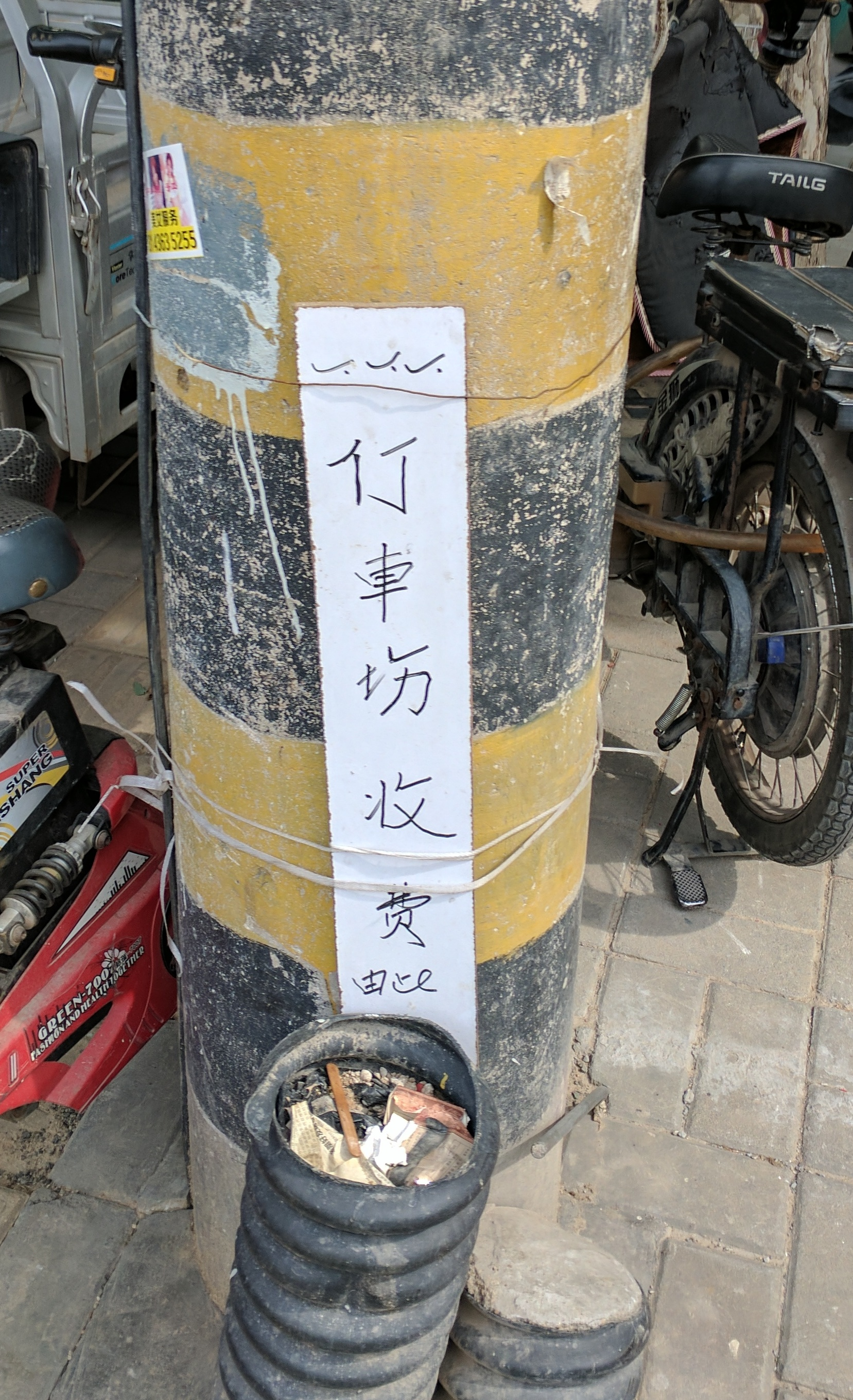 Second Chinese Character Simplification Example in Jinan, Shandong. The sign says "paid parking lot". The first and third Chinese character was written in Second Simplification, while the fifth using First Simplification, the second using Traditional Chinese, the forth one was using none of the three forms of characters.